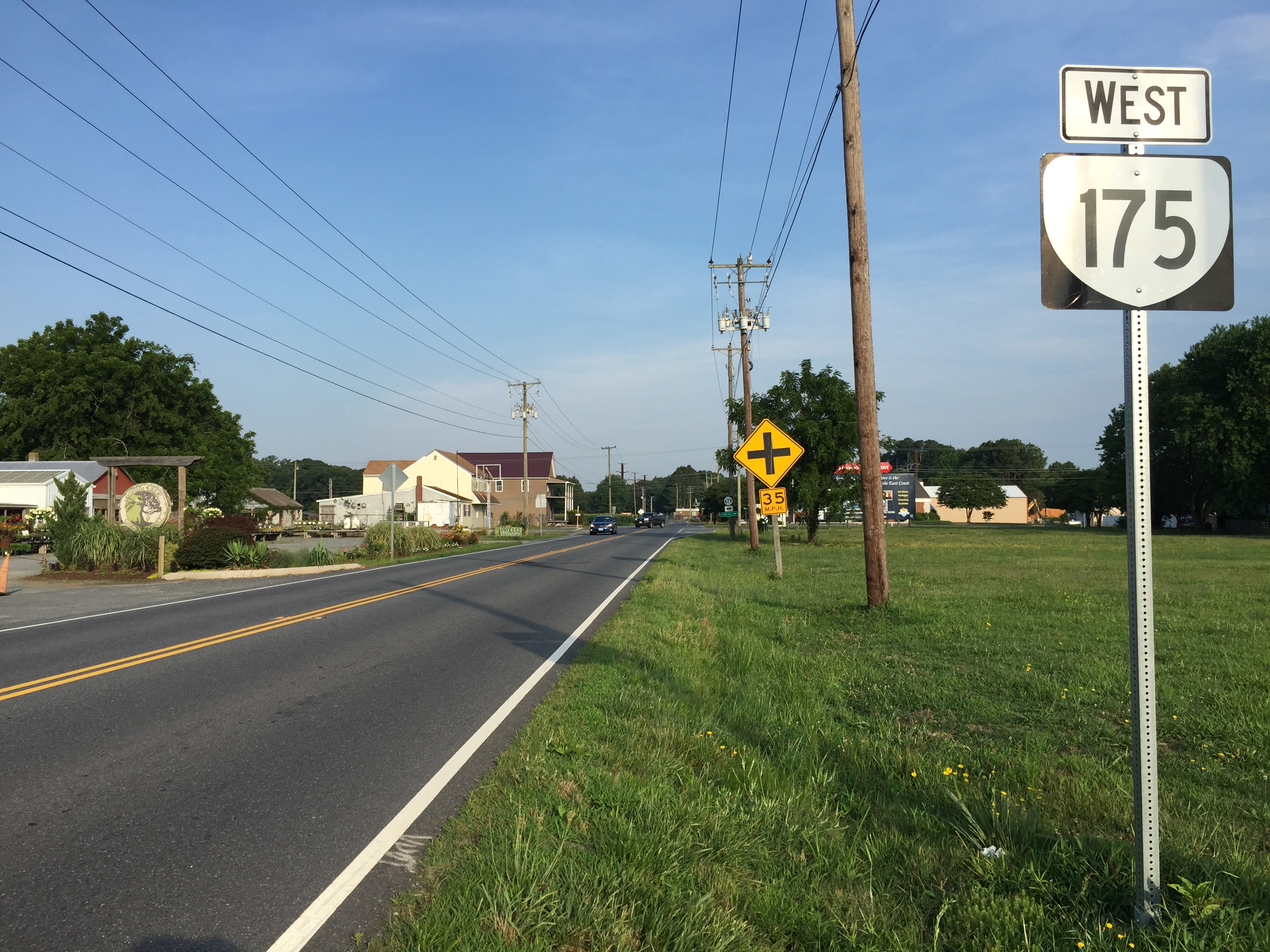 View west along Virginia State Route 175 (Chincoteague Road) at Wallops Millpond Road in Wattsville, Accomack County, Virginia